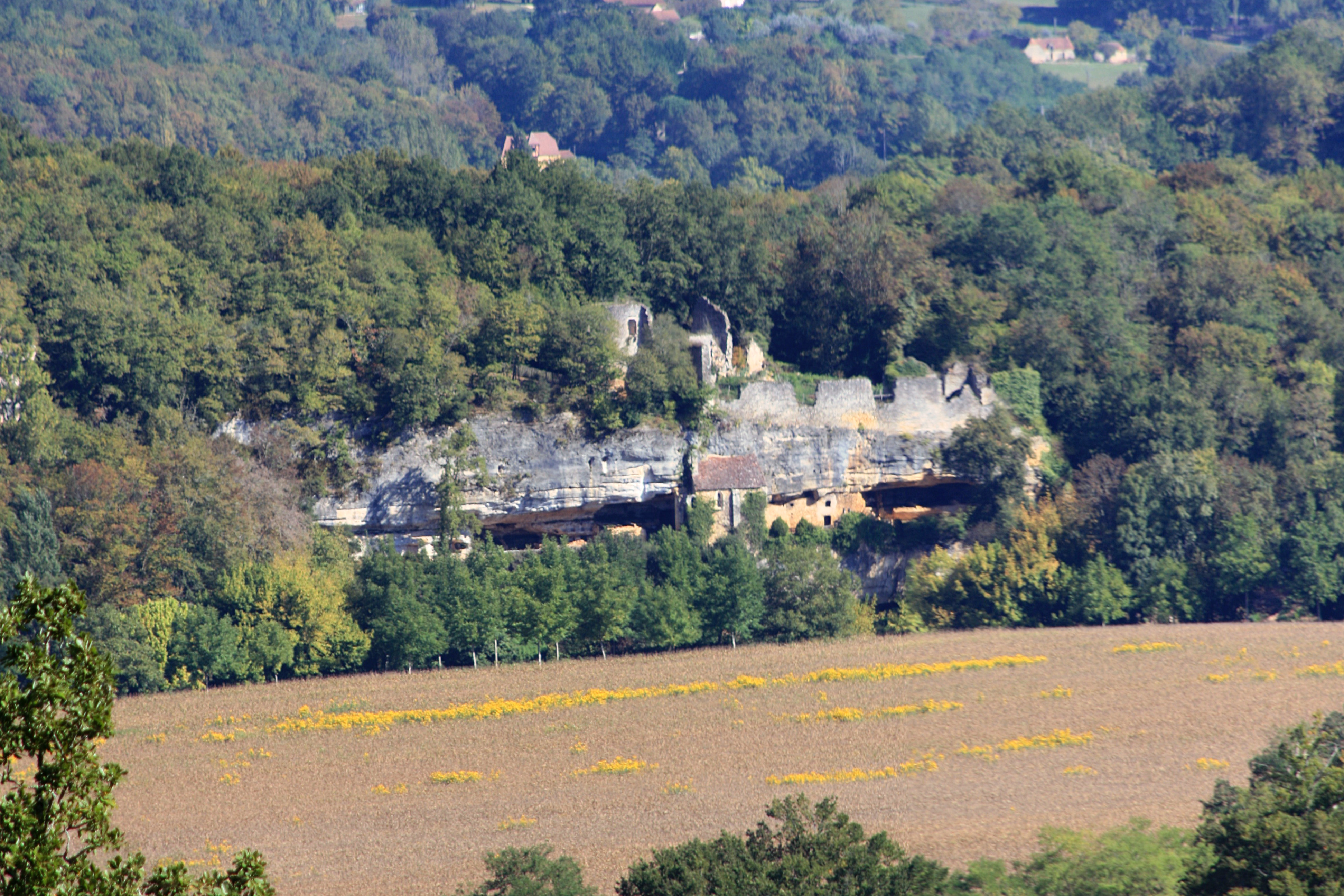 The rockshelter of La Madeleine, Tursac, Dordogne, France. This site was occupied by Homo Sapiens in Upper Paleolithic, near 18,000 and 10,000 BP. Above the shelter was built a medieval castle, now in ruins.